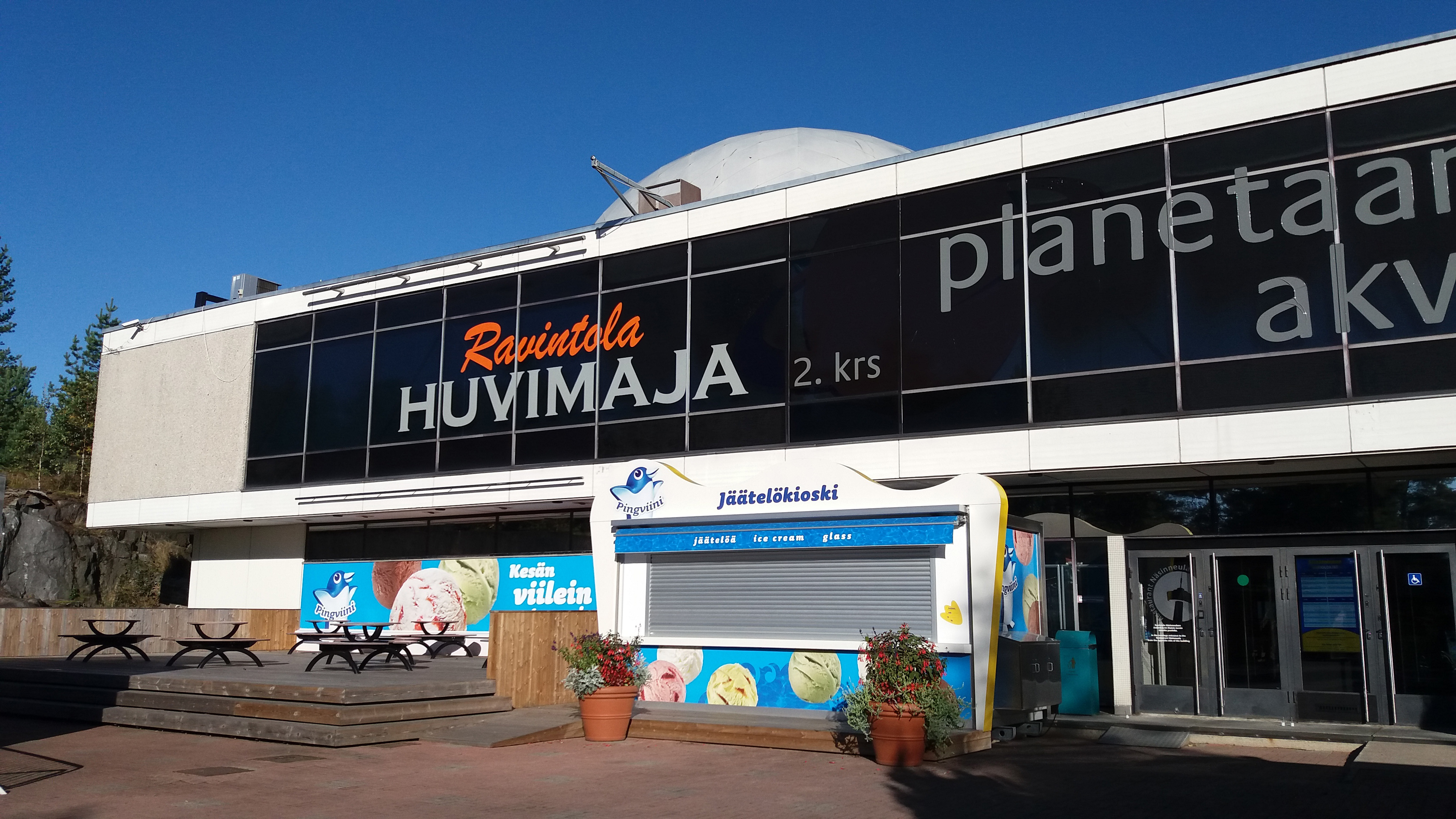 Särkänniemi, Tampere.